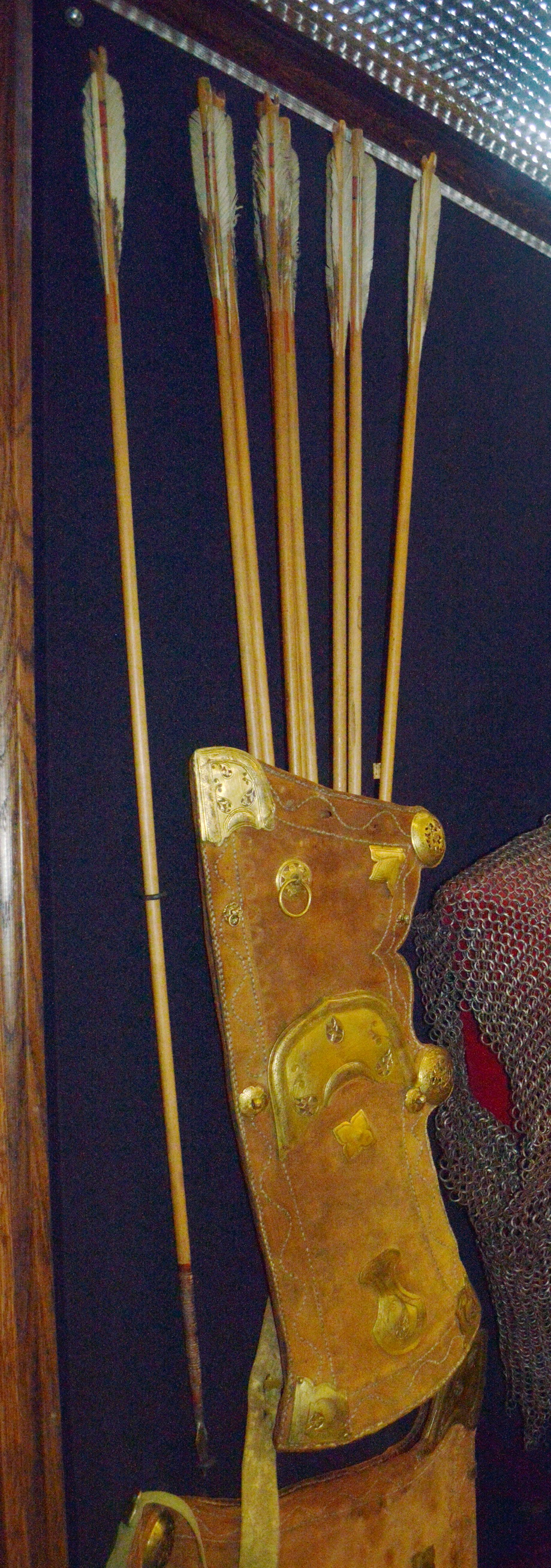 Quiver with arrows, Russia, 17 c.